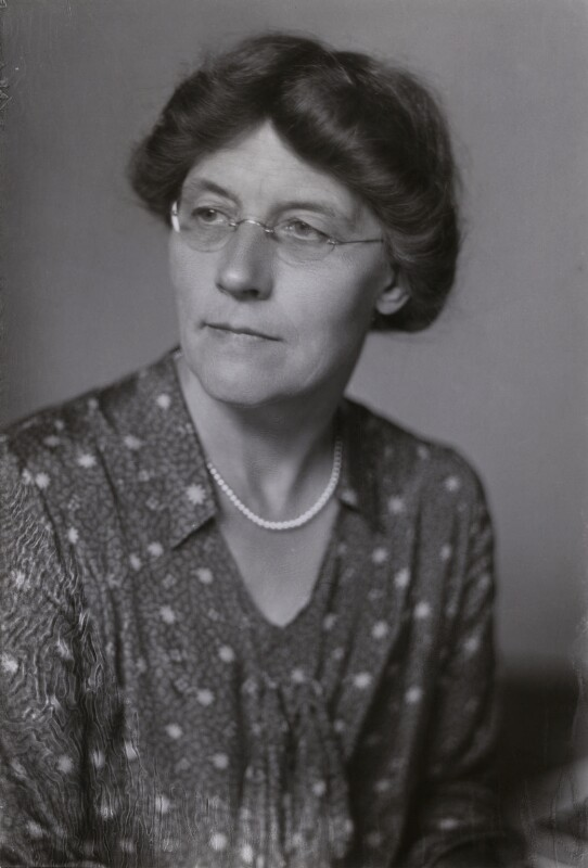 Winifred Elsie Brenchley (1883-1953), Agricultural botanist; Head of the Botany Department, Rothamsted Experimental Station. Sitter in 1 portrait.